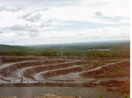 Quarry on west side of Chauncey Peak, Meriden, Connecticut. Paul Gagnon, 2000.